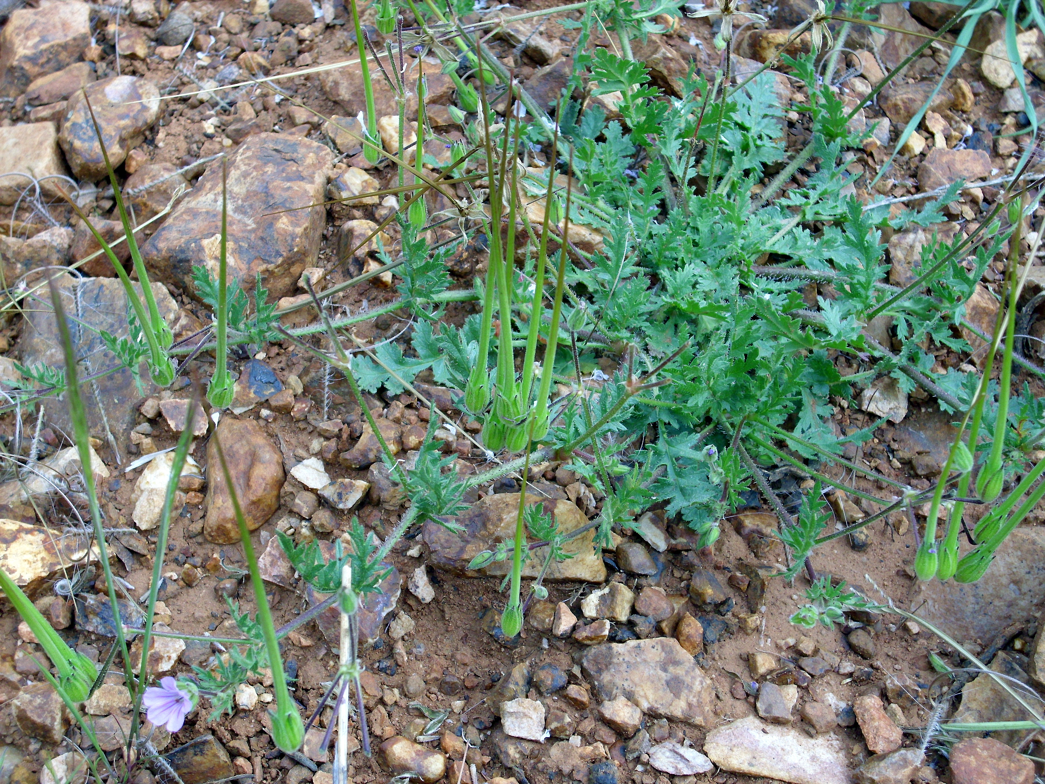 Erodium botrys habit Campo de Calatrava, Spain